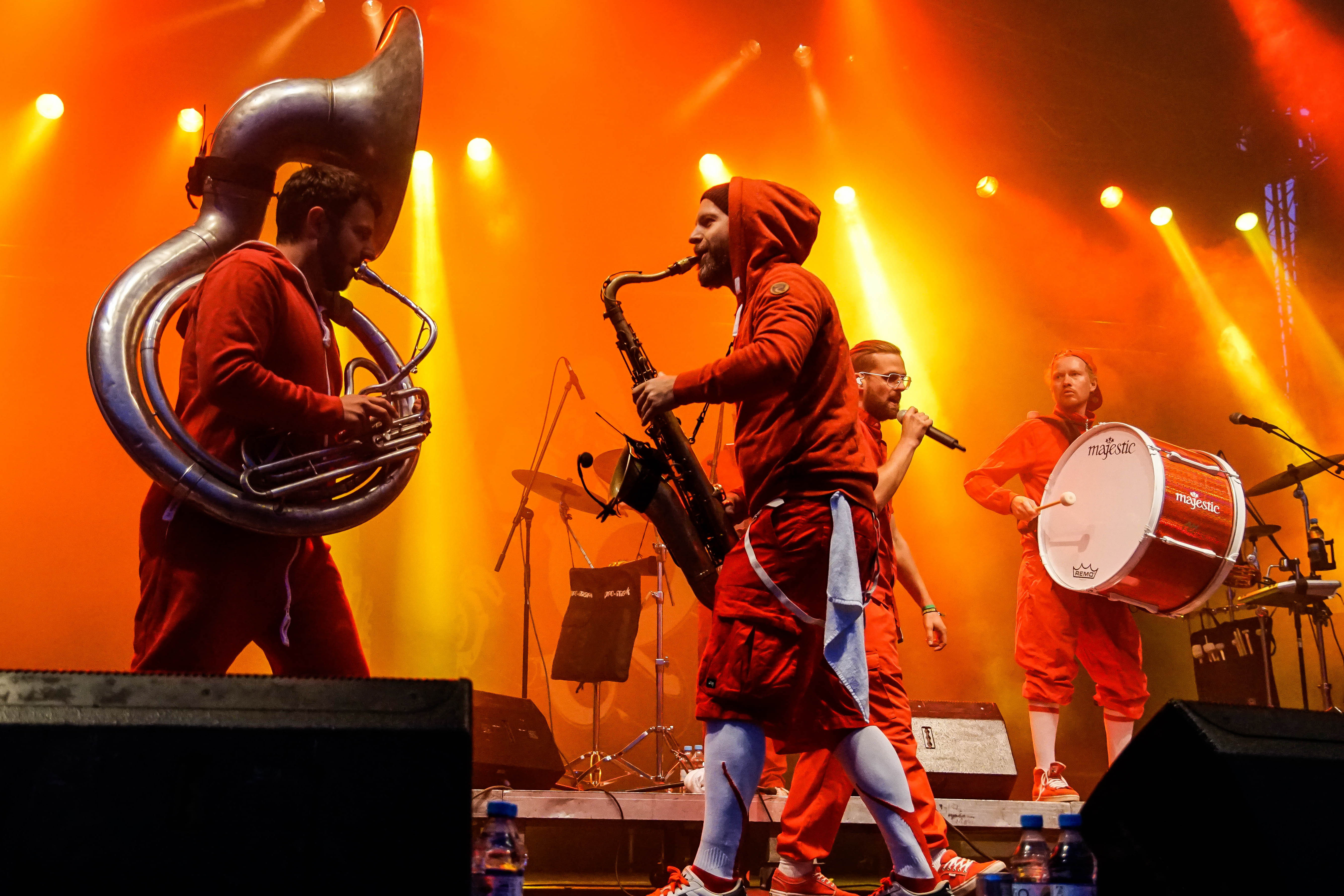 Moob Mama at Rocken am Brocken 2015, Elend, Germany